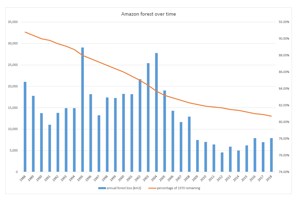 Graph of the rate of deforestation from 1988 to 2018 made with excel. Data taken from the current page.